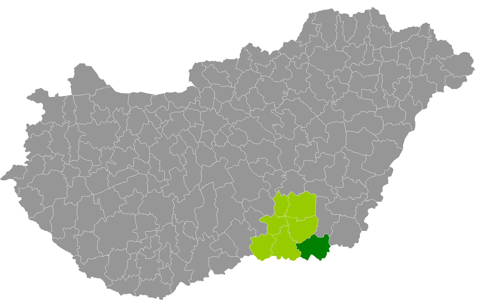 Location of Makó District, Csongrád, Hungary